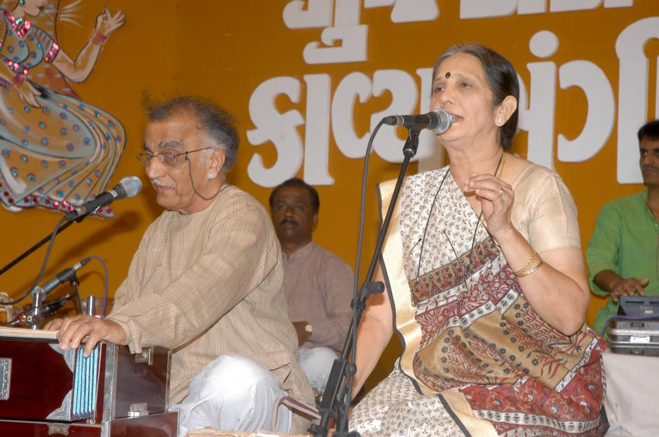 Performing in Samanvay Kavya Sangeet Samaroh